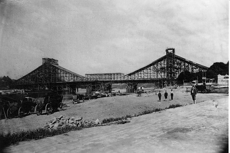 Bridge "Blaues Wunder" in Dresden under construction